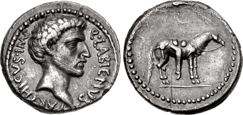 The Republicans. Labienus. Early 40 BC. AR Denarius (19mm, 3.58 g, 5h). Uncertain mint in Syria or southeastern Asia Minor. Bare head right; Q • LABIENVS PARTHICVS • IMP around / Horse standing right on ground line, wearing saddle with quiver attached and bridle. Crawford 524/2; Hersh 15 (dies F/13); CRI 341; RSC 2; Sydenham 1357; Kestner –; BMCRR East 132. Good VF, toned, hairline flan crack, minor porosity.